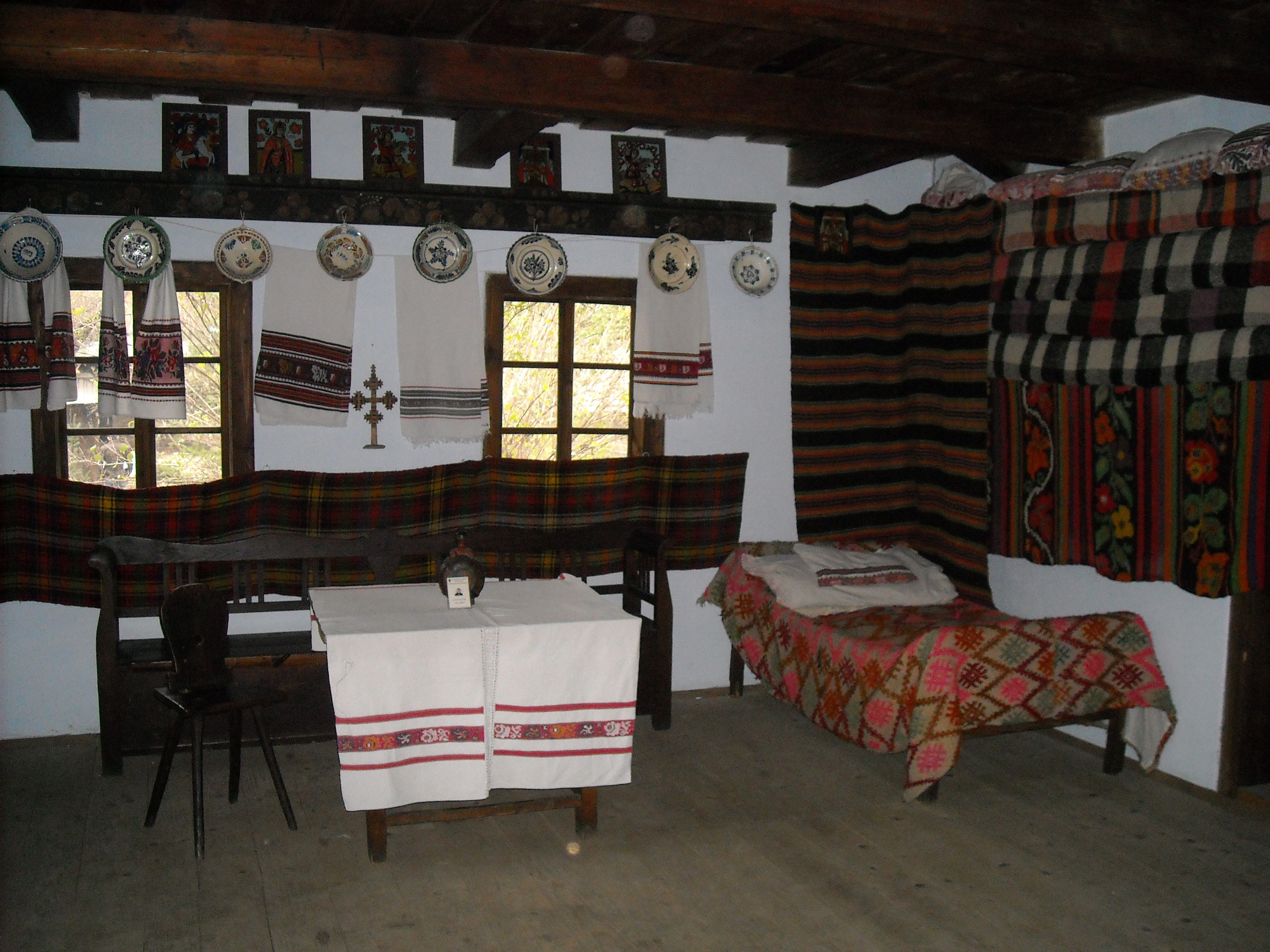 peasant house from Șanț in Village Museum, Bucharest